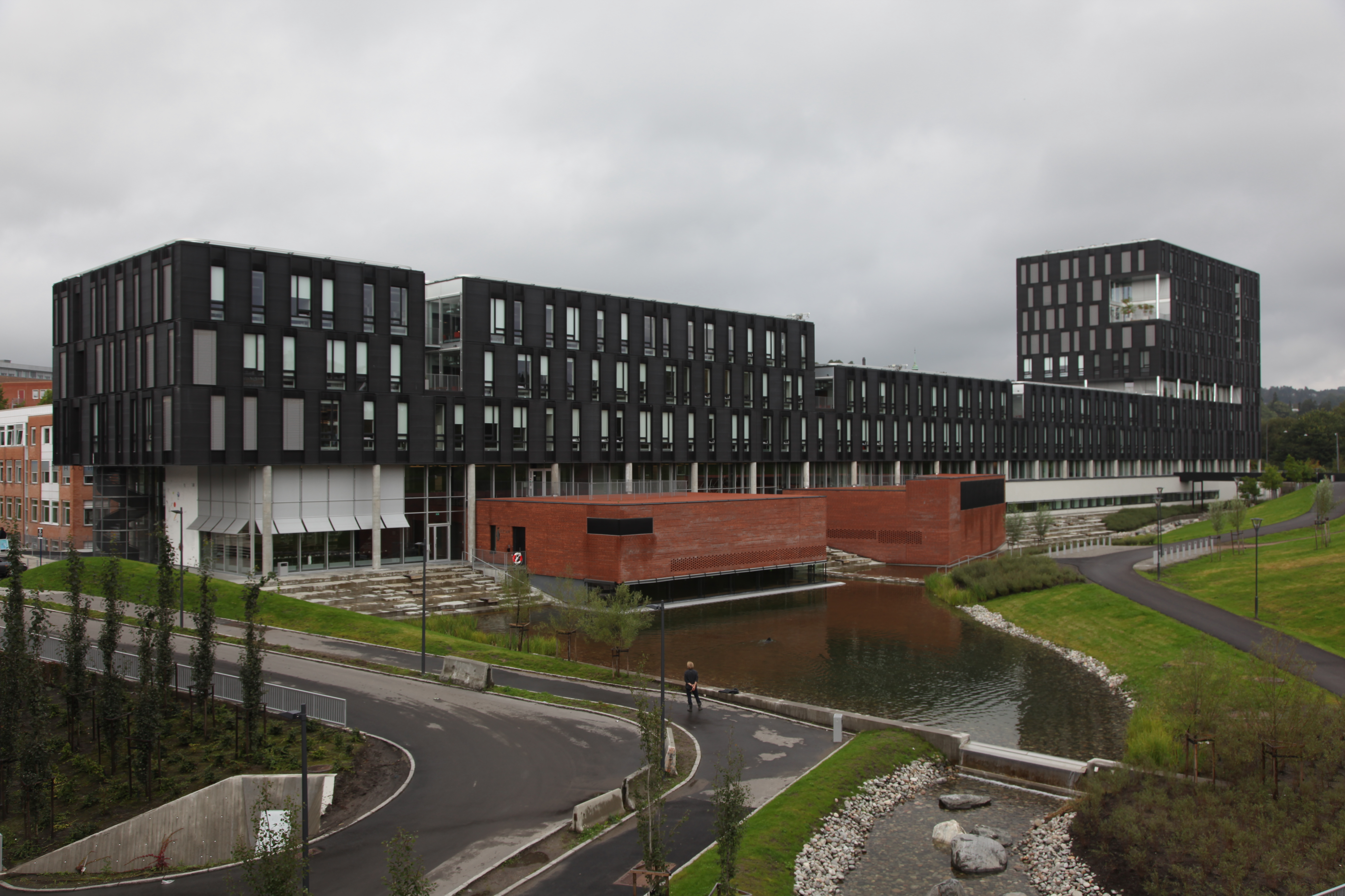 Ole-Johan Dahls hus (Ole-Johan Dahls House), part of University of Oslo, opened autumn 2011. Named after Professor Ole-Johan Dahl